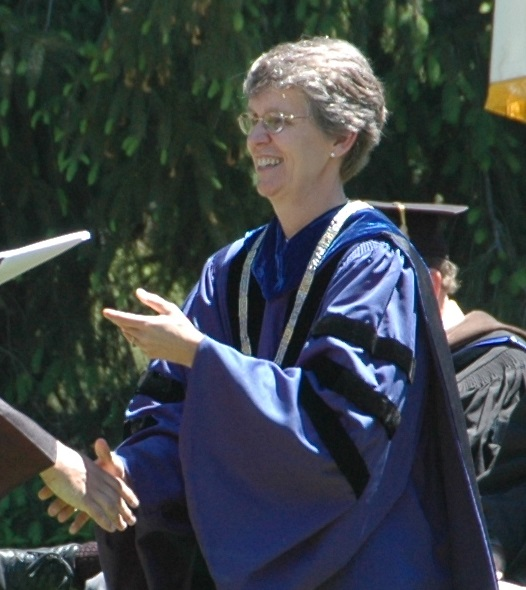 Catharine Bond Hill, 10th president of Vassar College at the 2008 graduation on Graduation Hill.